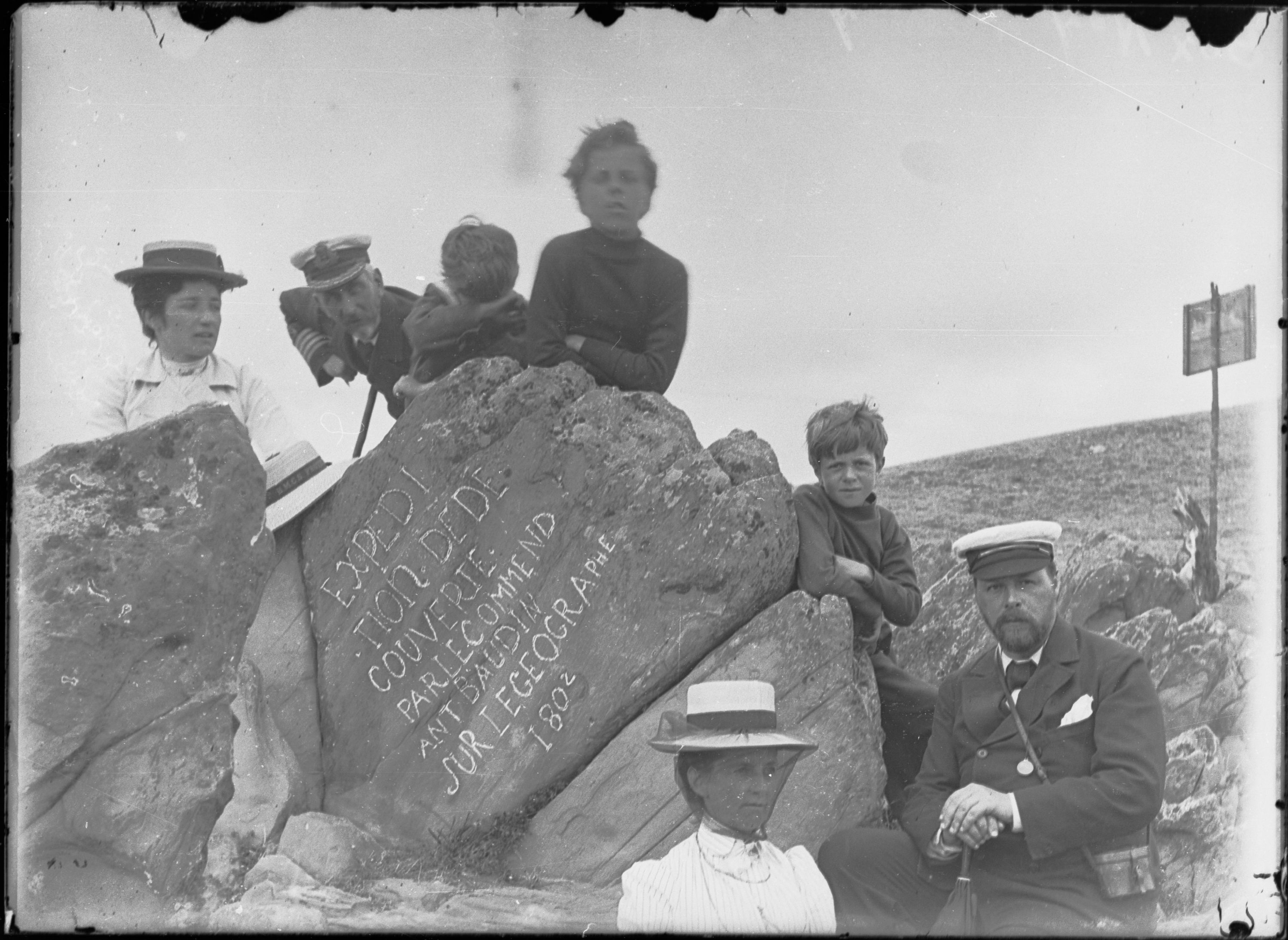 Note on the back of photo notes reads "Governor Tennyson and family at Franchman's Rock". It is believed that the people from left to right are a French Governess, Captain Chapman James Clare, Lionel, Harold, Aubrey, Hallam and Audrey in front. Based on information provided by Bridget Jolly and information from Alexandra Hasluck (Ed), 'Audrey Tennyson's Vice-Regal Days', the French governess was Mademoiselle Jose Dussau. The inscription on the rock provides evidence of French Captain Nicolas Baudin's expedition in southern Australia. The English translation is 'EXPEDITION OF DISCOVERY BY COMMANDER BAUDIN ON THE GEOGRAPHE 1803'. Note that a '2' has been incorrectly chalked over the '3' in the date.